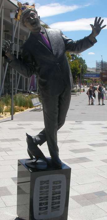 Statue of Graham Kennedy by Peter Corlett at Waterfront City, Melbourne Docklands